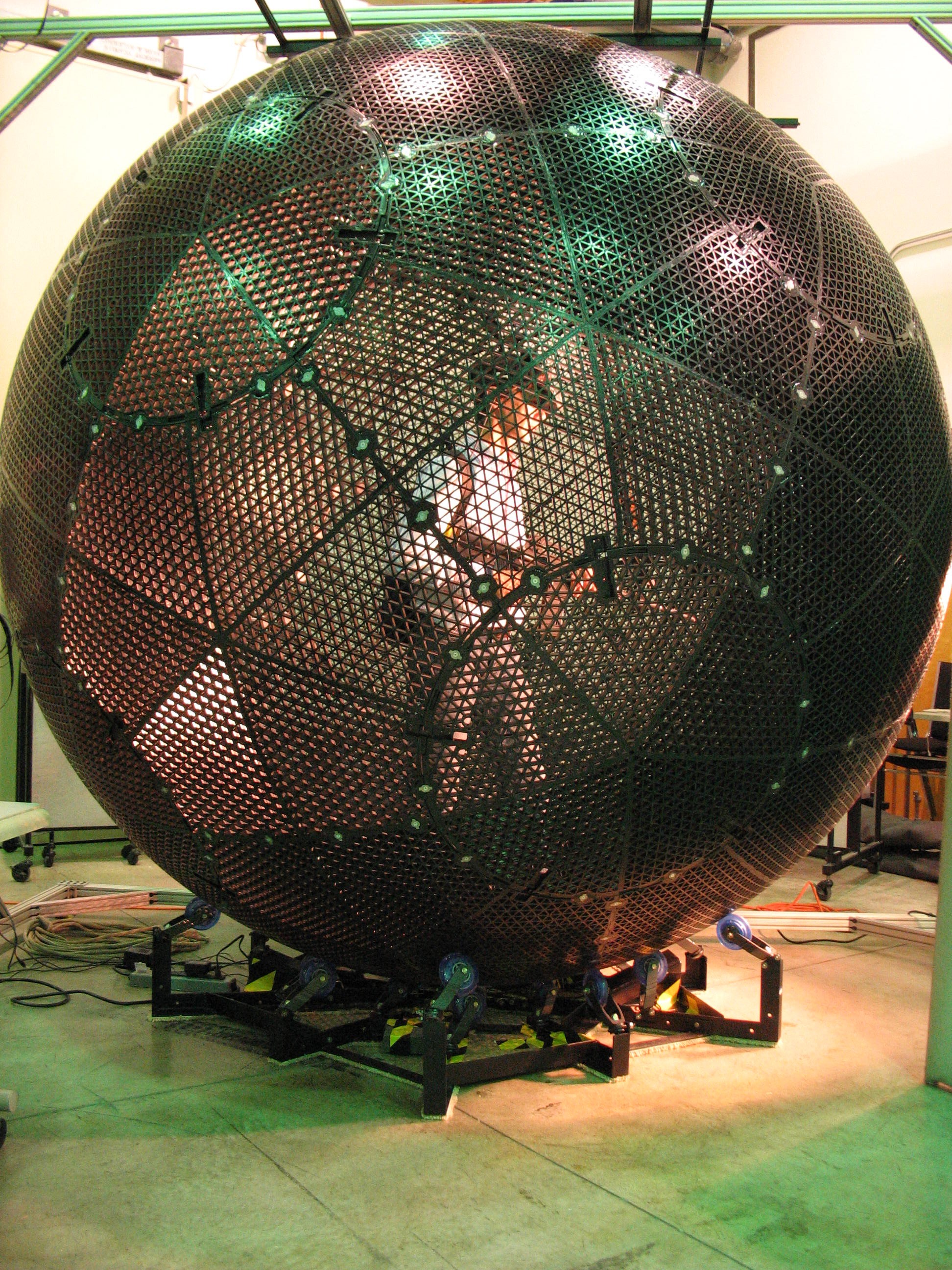 Paul Monday demonstrates the VirtuSphere simulator at the MWTB, Ft Knox, KY